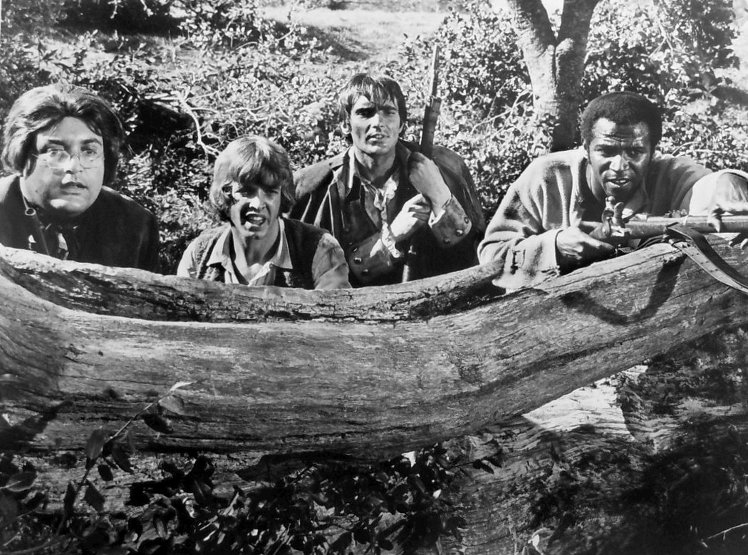 Photo from the action television series The Young Rebels picturing the male members of the cast. From left-Alex Henteloff, Rick Ely, Philippe Forquet and Lou Gossett, Jr.